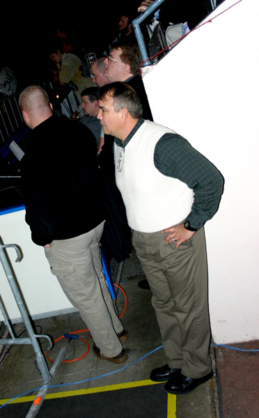 ricky steamboat watching a match. this was an absolute dream to see him and i even got an autograph.